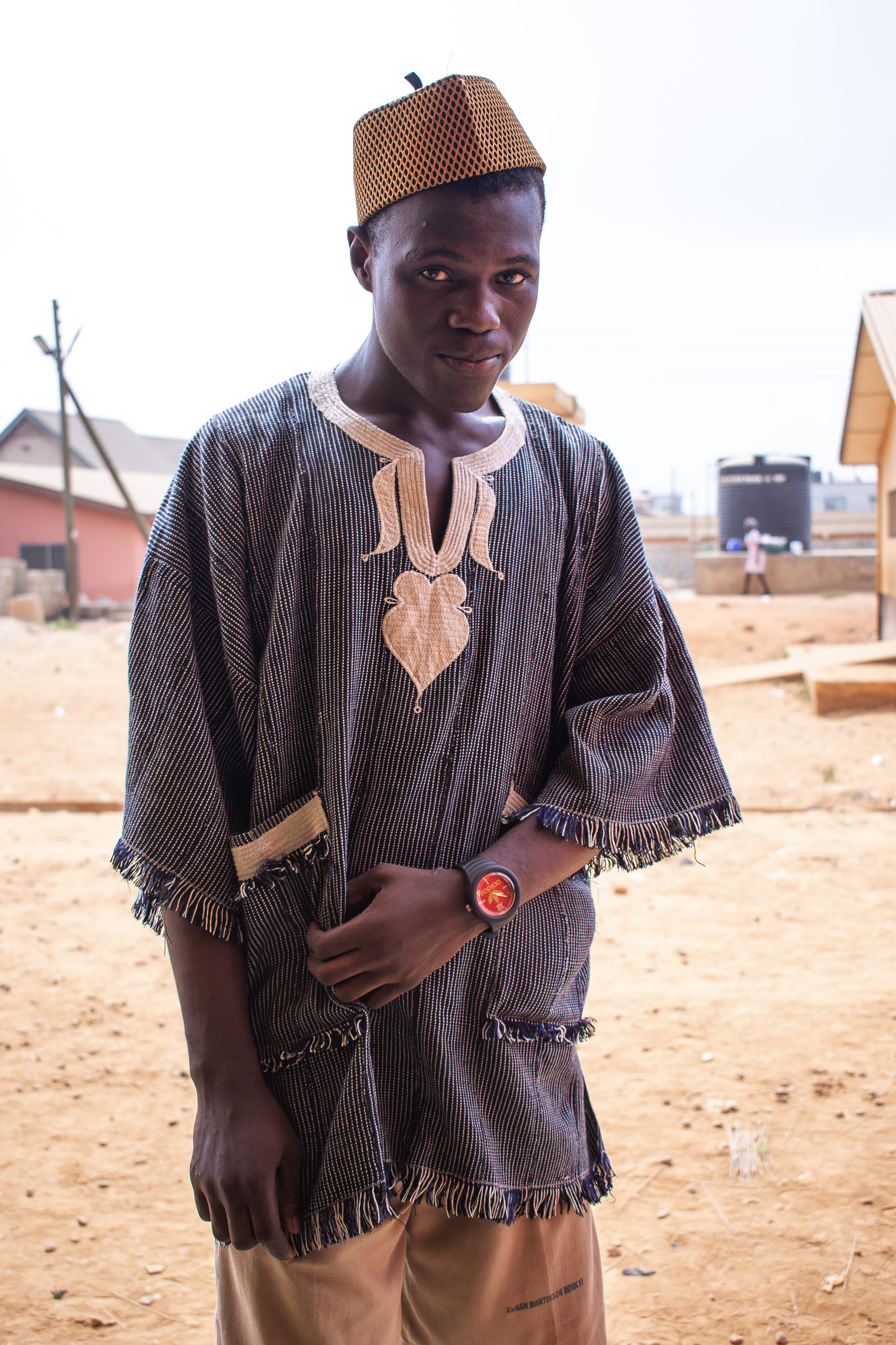 Smock is a type of dress the Northerness of Ghana wear, it is made from yarns, woven my hand with the help of local loom. Kete is use in sewing the smock. This photo has been taken in the country: Ghana